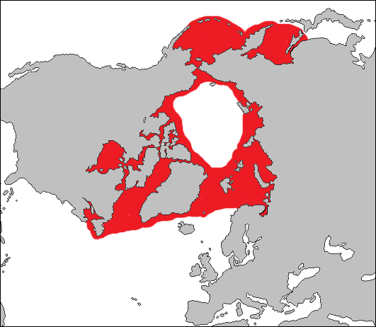 Distibution of Erignathus barbatus